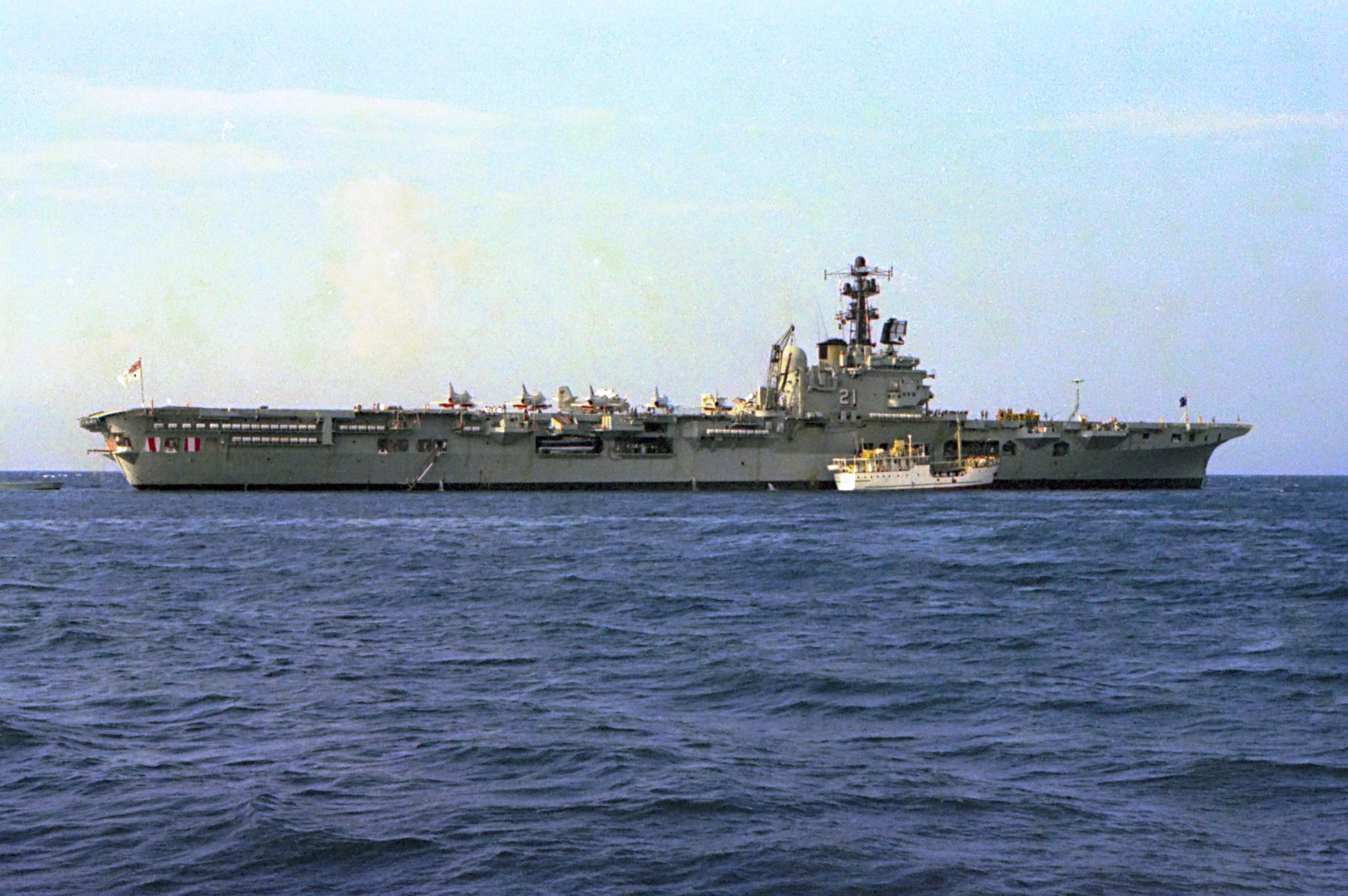 HMAS Melbourne at anchor, Honiara April 1980